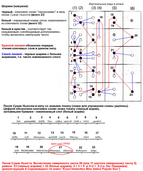 A. Skromnitsky. Yupana of the inkas. The song of Sumaq Nusta. Deciphering are based in the books “Exsul Immeritus Blas Valera Populo Suo”